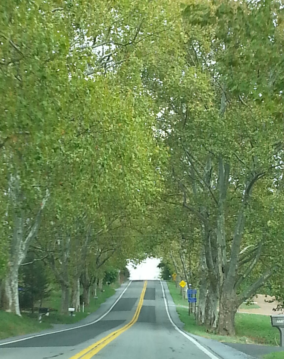 Legislative Route 1 Sycamore Allee is a historic roadway landscape in Halifax Township and Reed Township, Dauphin County, Pennsylvania. It consists of 314 sycamore trees planted along Legislative Route 1. They are located along both sides of the road south of Halifax and on the east side of the road north of Halifax. Approximately 536 trees were originally planted in 1922. It was added to the National Register of Historic Places in 2007 (information from Wikipedia)